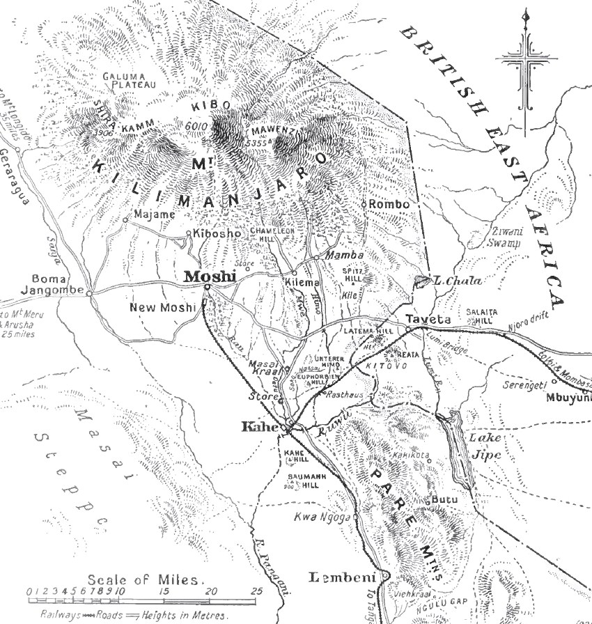 Map of Kilimanjaro area 1914-1918